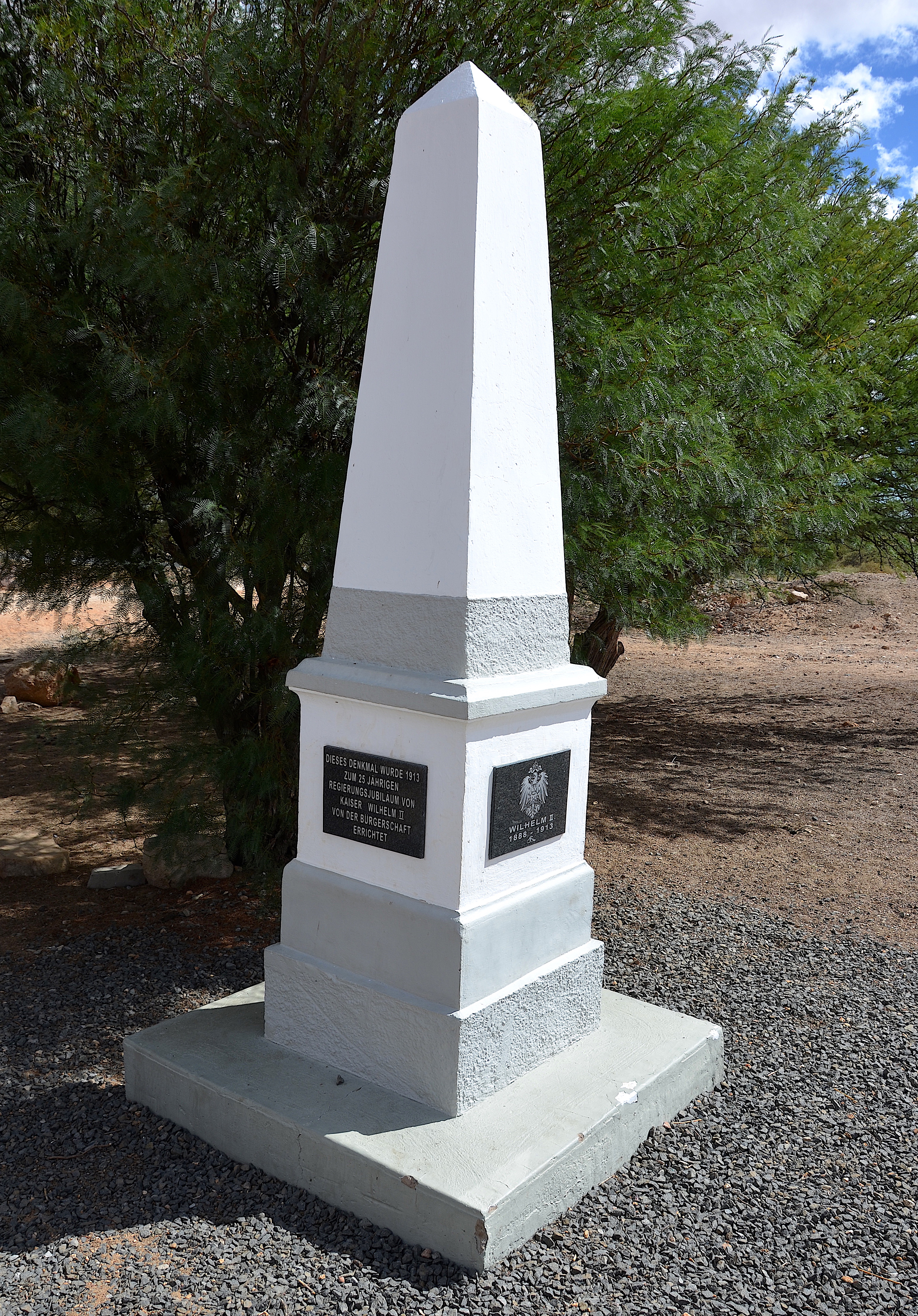 Kaiser-Wilhelm-II.-Monument at Aus, Namibia (2017)